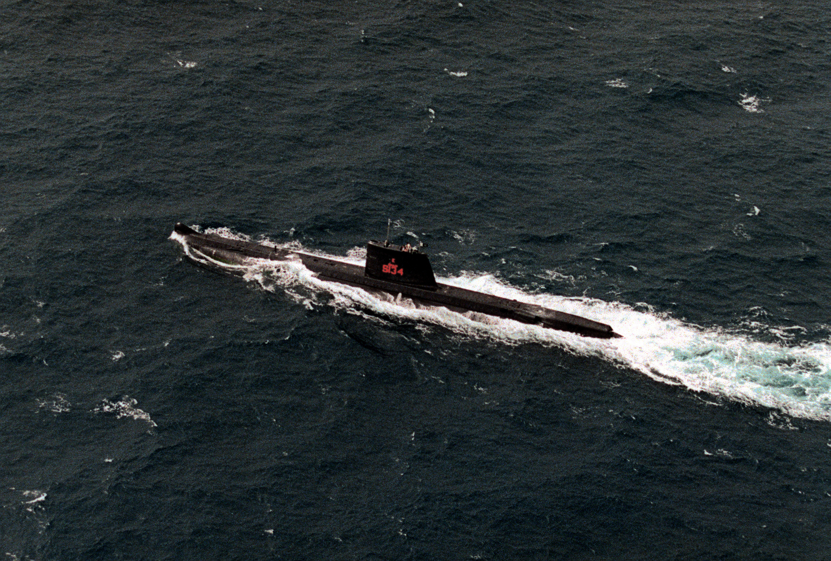 A port view of the Pakistani Daphné-class submarine GHAZI (S-134) underway. The GHAZI is the former Cachalote of the Portuguese navy.